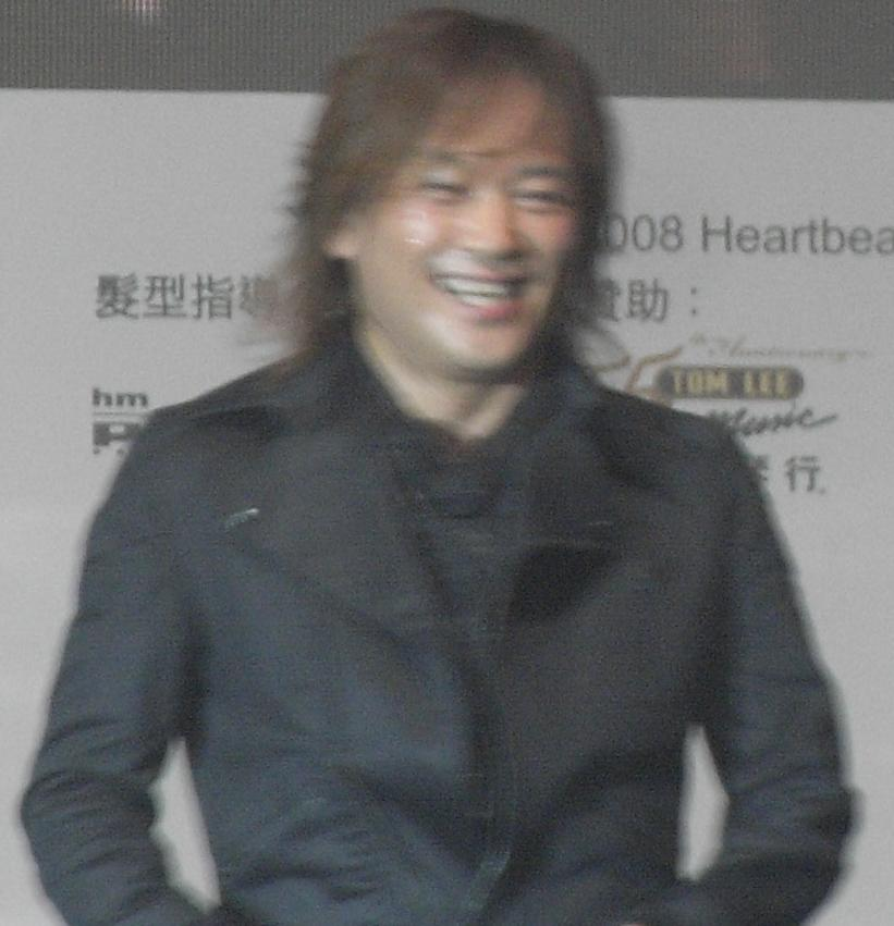 Kageyama Hironobu. Taking in Animation-Comic-Game Hong Kong on August 1st, 2008.